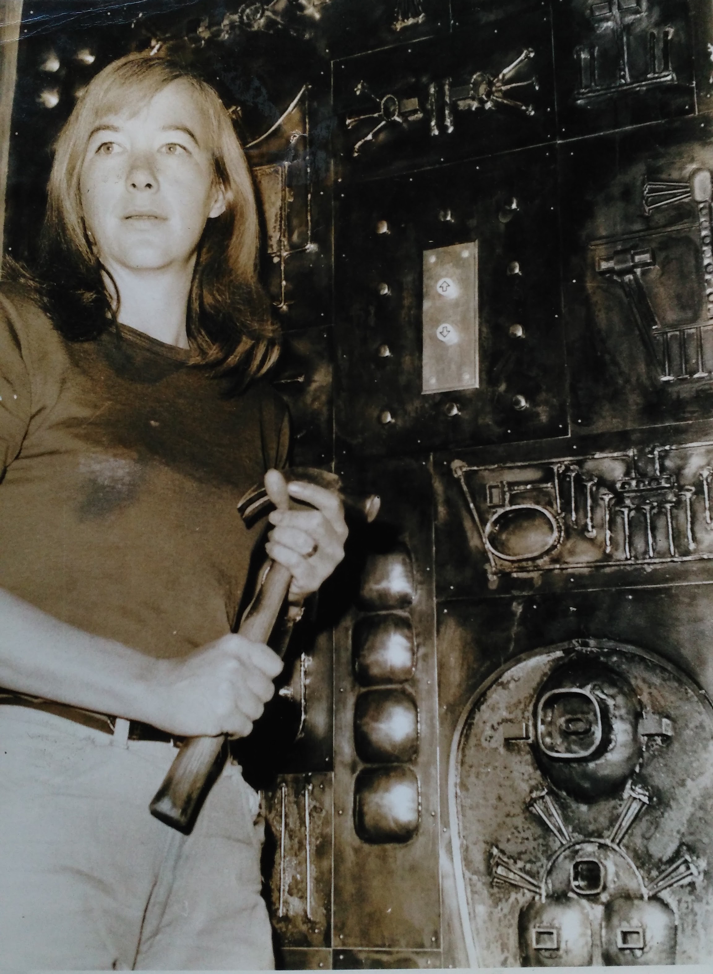 Jensen in 1966, Copper and bronze panels in the lift lobby of the S.A.N.T.A.M. Building in Johannesburg, South African.